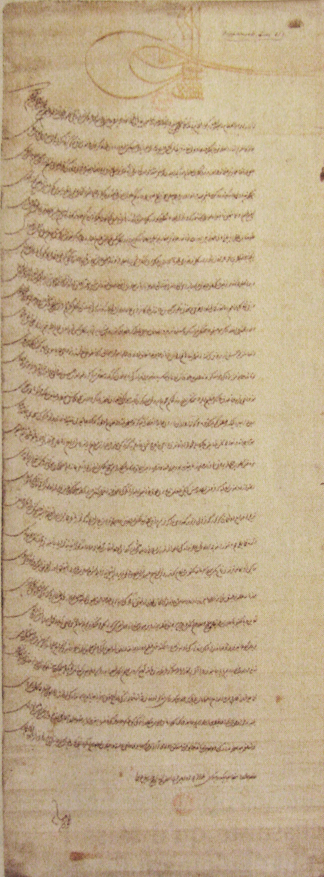 Letter_of_Soliman_to_Francis_about_the_Siege_of_Nice_mid_February_1543.